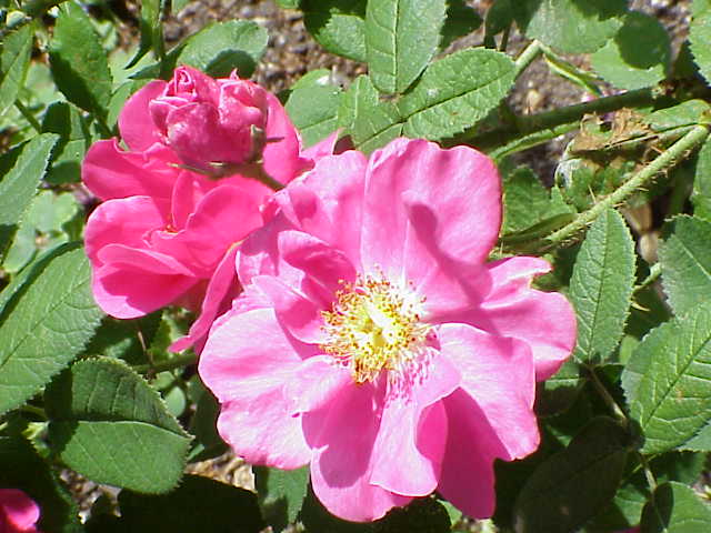 Species: Rosa gallica Family: Rosaceae Cultivar: Officinalis Image No. 4